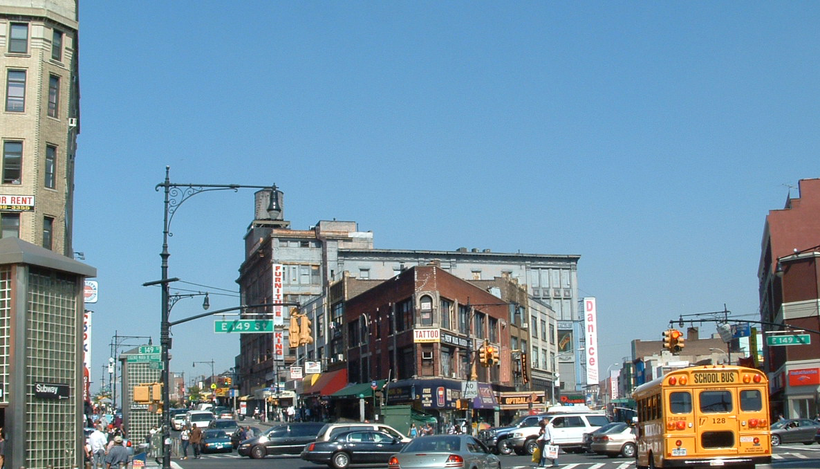 The Hub at Third, Willis and Montrose Avenues and 149th Street is the main shopping district of the South Bronx, a Hispanic neighborhood with a large Dominican population.